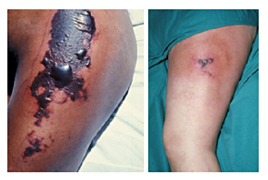 Coumarin-induced skin necrosis: The patient on the left had a deep vein thrombosis, while the patient on the right had rheumatic mitral stenosis with atrial fibrillation.